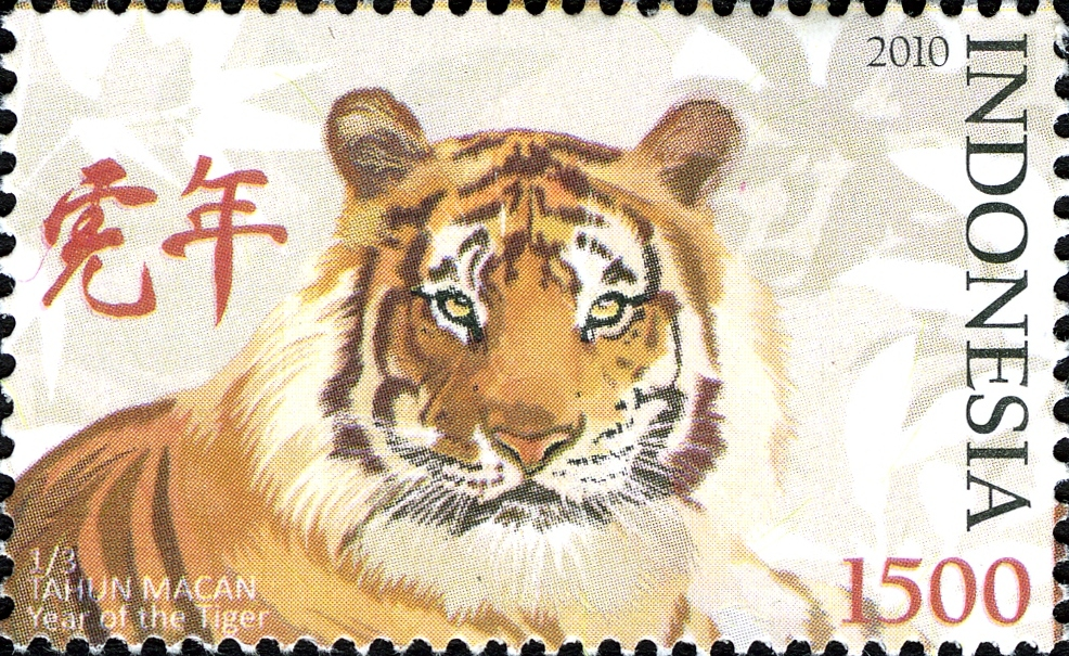 Stamps of Indonesia